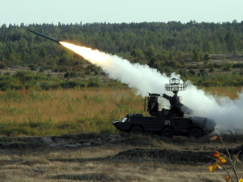 SA-8 Gecko launching a rocket on Domanovo training camp in Belarus during strategic military game "West-2009"